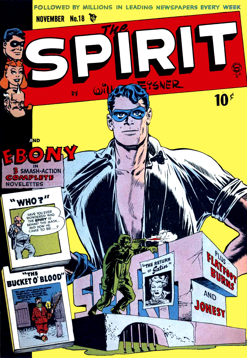 "Followed by millions in leading newspapers every week": The Spirit's adventures were reprinted by Quality on a quarterly (later bi-monthly) basis between 1944 and 1950.